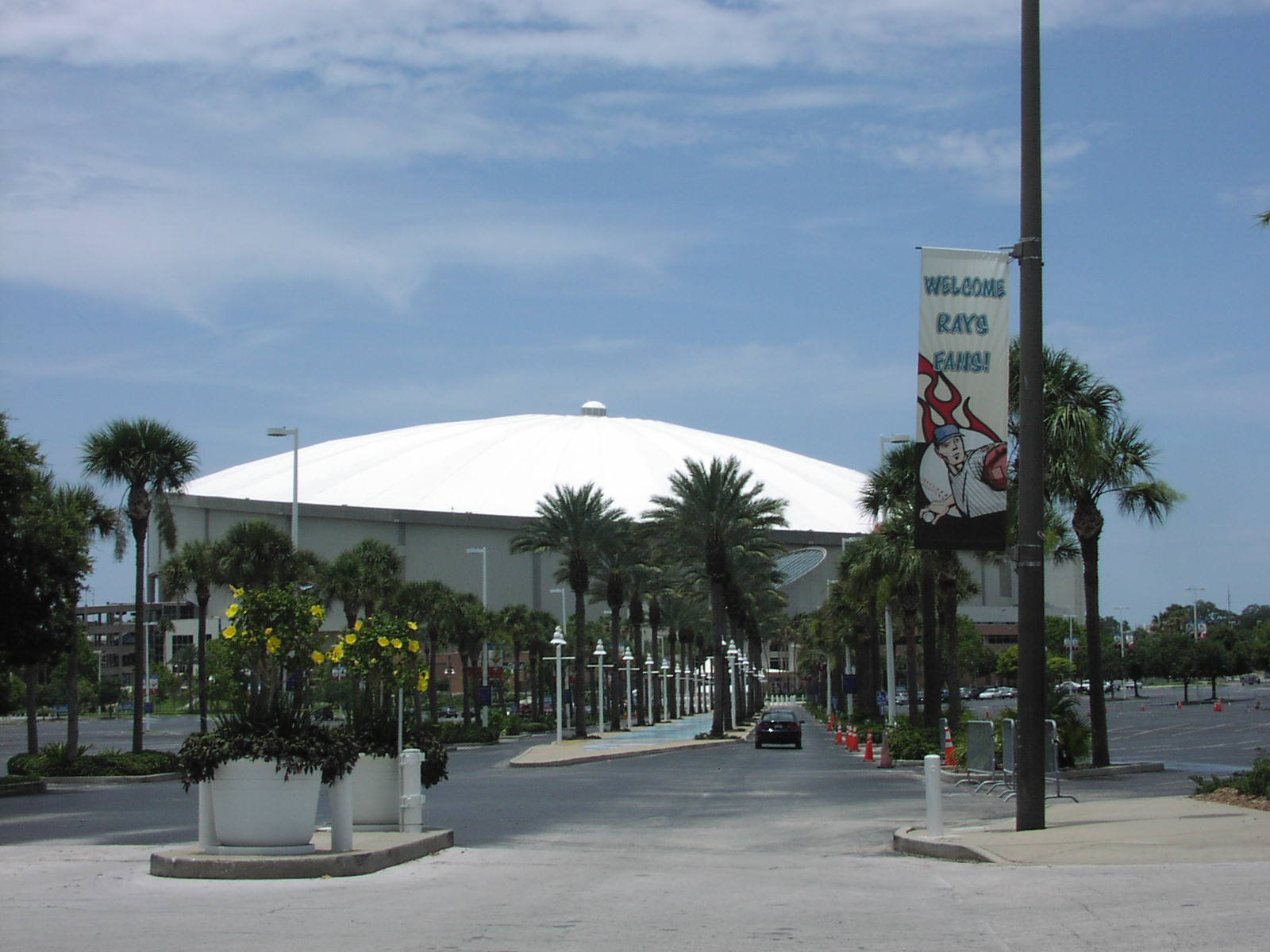 View of "the trop" from the parking lot. 13:54, 19 June 2007 . . AbeEzekowitz . . 1600×1200 (423,961 bytes)